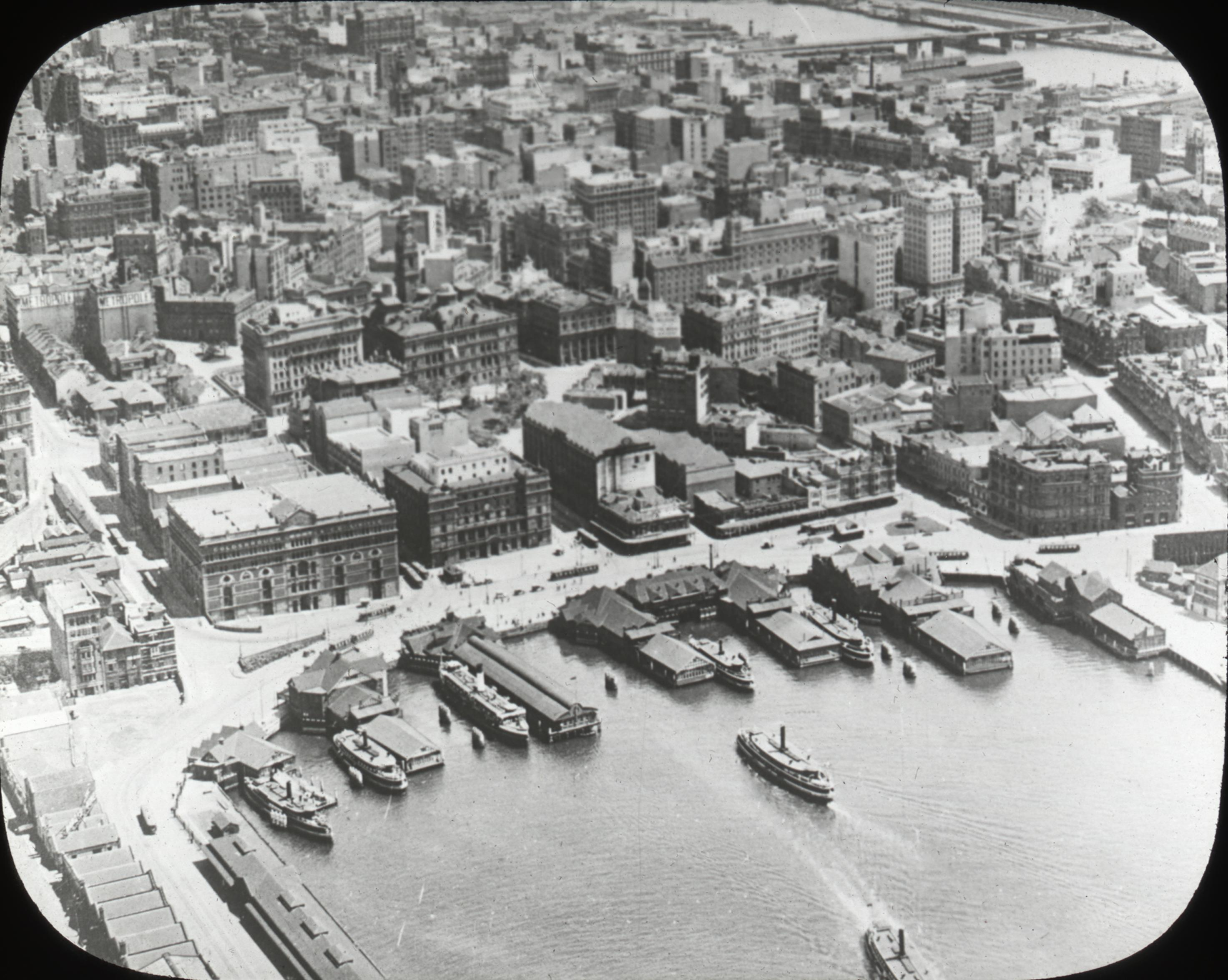 Image Description from historic lecture booklet: "The principal artery of the business section is Circular Quay, where the many ferries to the suburbs move in and out with their thousands going to and from work." Original Collection: Visual Instruction Department Lantern Slides Item Number: P217:set 039 011 You can find this image by searching for the item number by clicking here. Want more? You can find more digital resources online. We're happy for you to share this digital image within the spirit of The Commons; however, certain restrictions on high quality reproductions of the original physical version may apply. To read more about what “no known restrictions” means, please visit the Special Collections & Archives website, or contact staff at the OSU Special Collections & Archives Research Center for details.